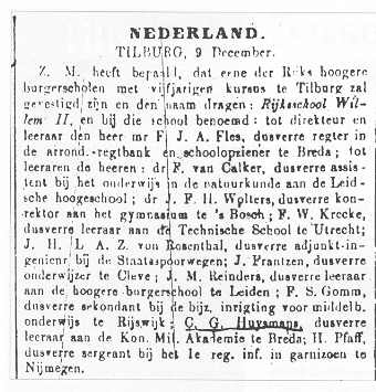 An article about founding a school in the former royal palace of King William II of the Netherlands and who will be in the staff of the new school.